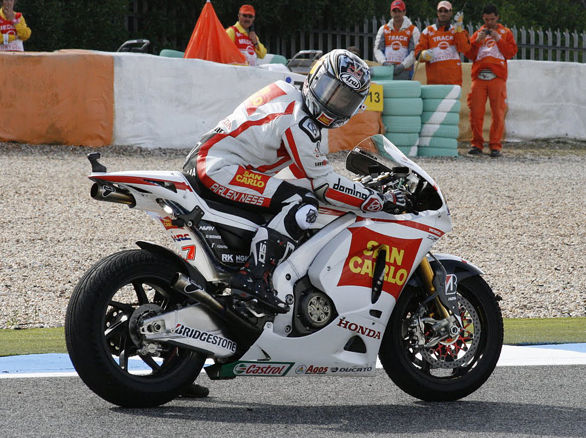 Hiroshi Aoyama 2011 Estoril